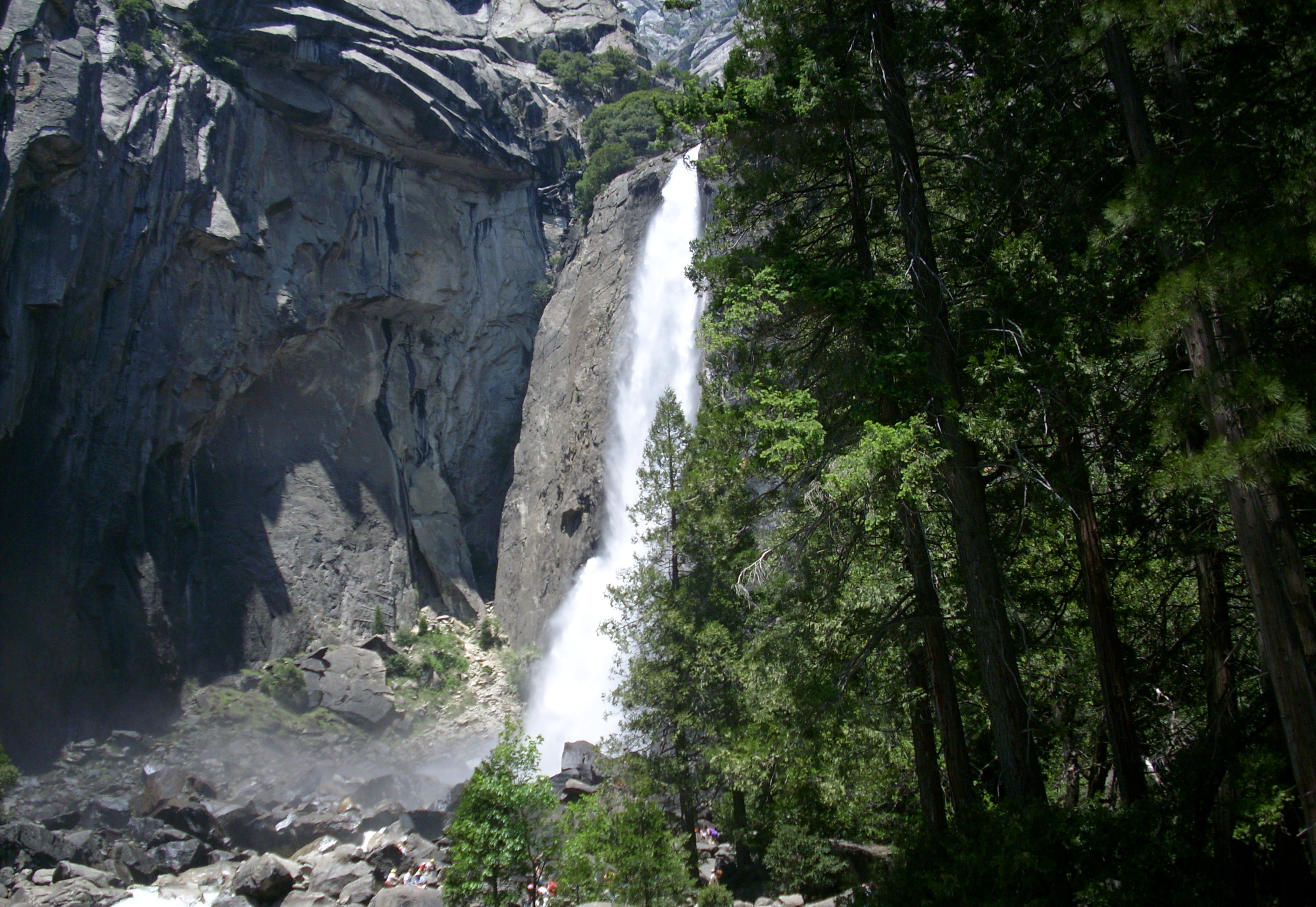 Yosemite Falls, from the bridge on the hiking trail